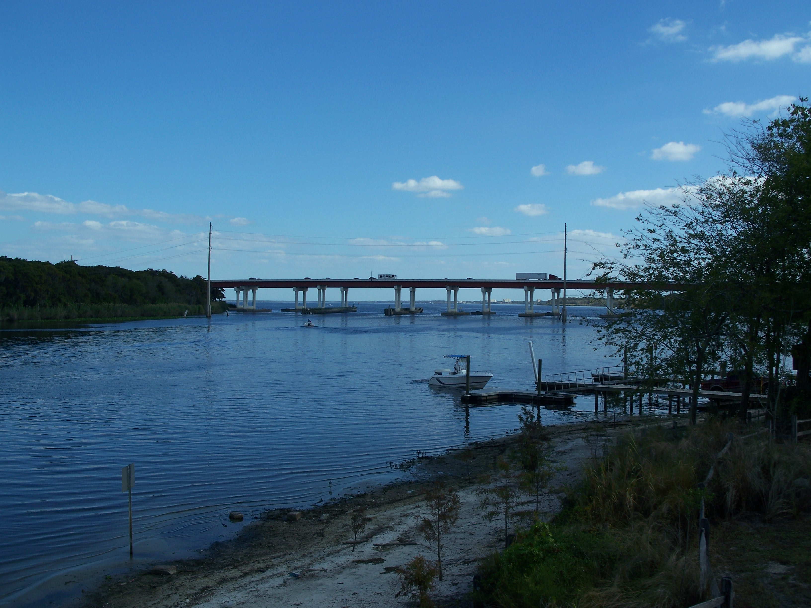 Sanford, Florida: St. Johns River Veterans Memorial Bridge